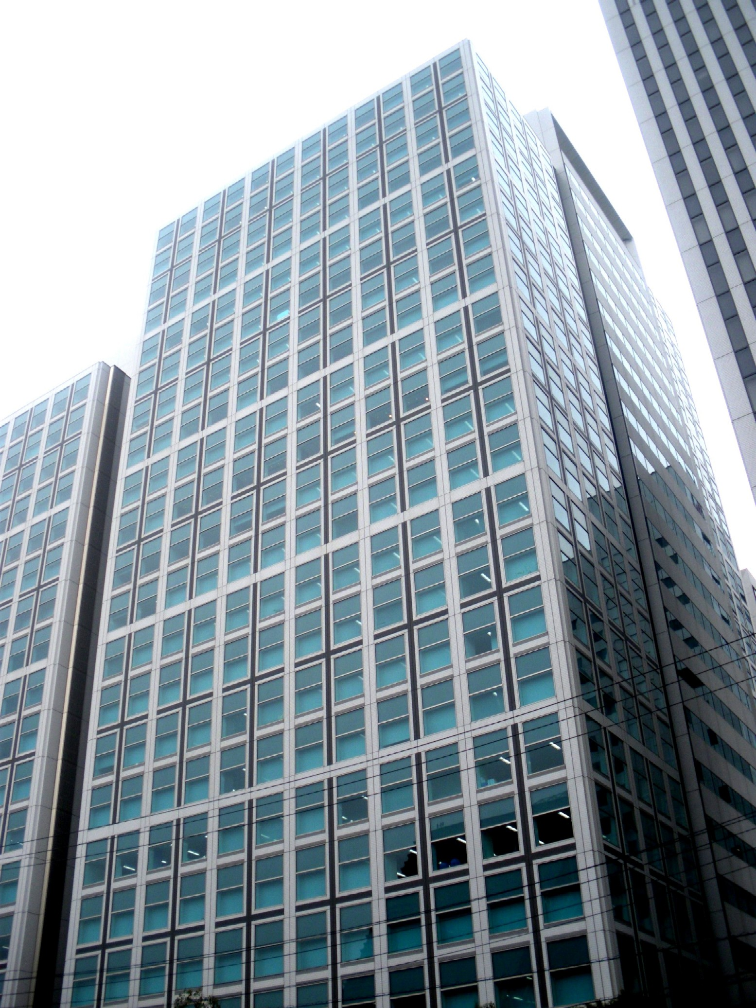 A photo of Shinagawa Seaside Rakuten Tower (the head office of Rakuten, Inc). Higashishinagawa, Shinagawa-ku, Tokyo, Japan.